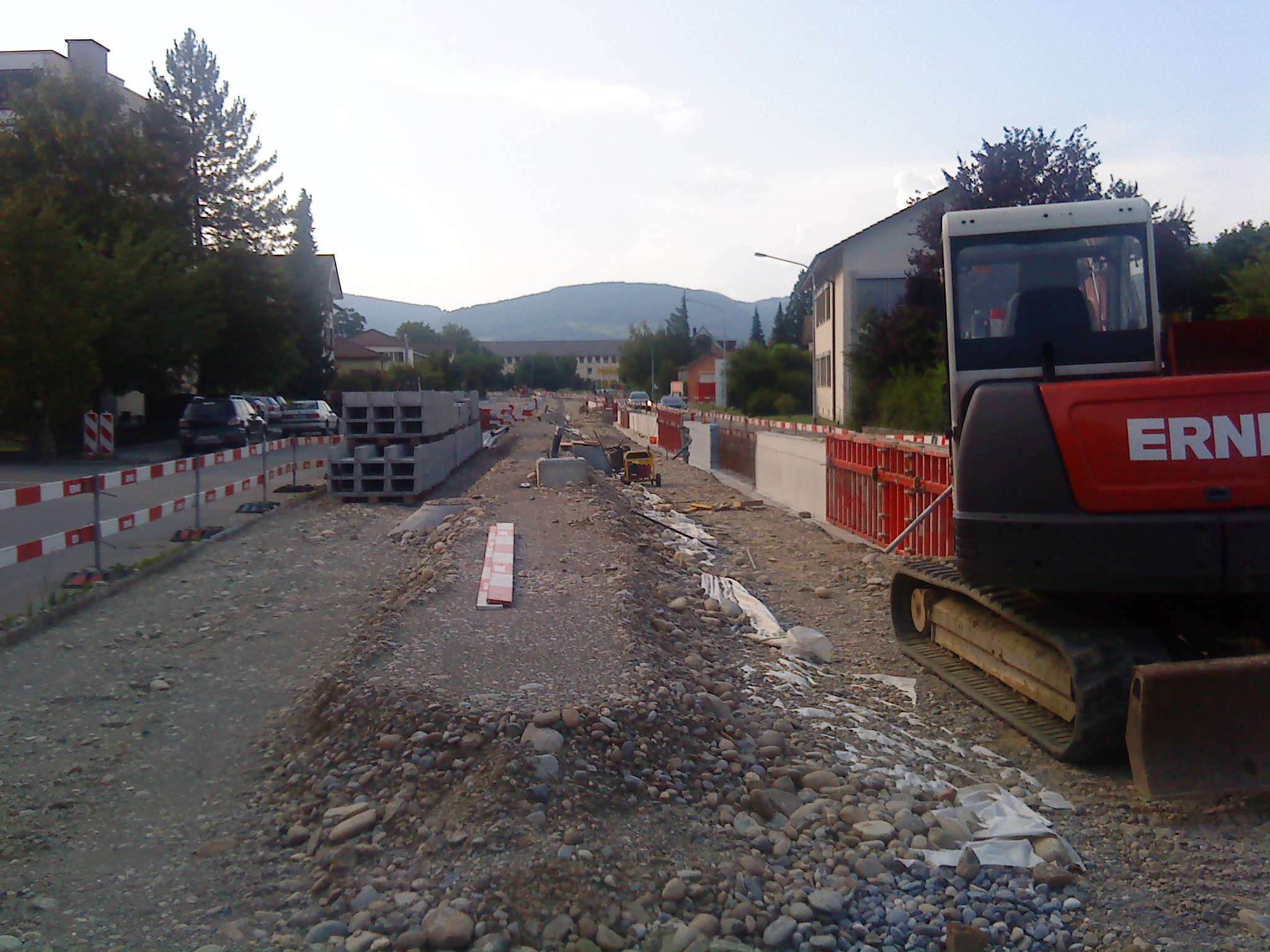 The railway line Aarau-Suhr is being refurbished